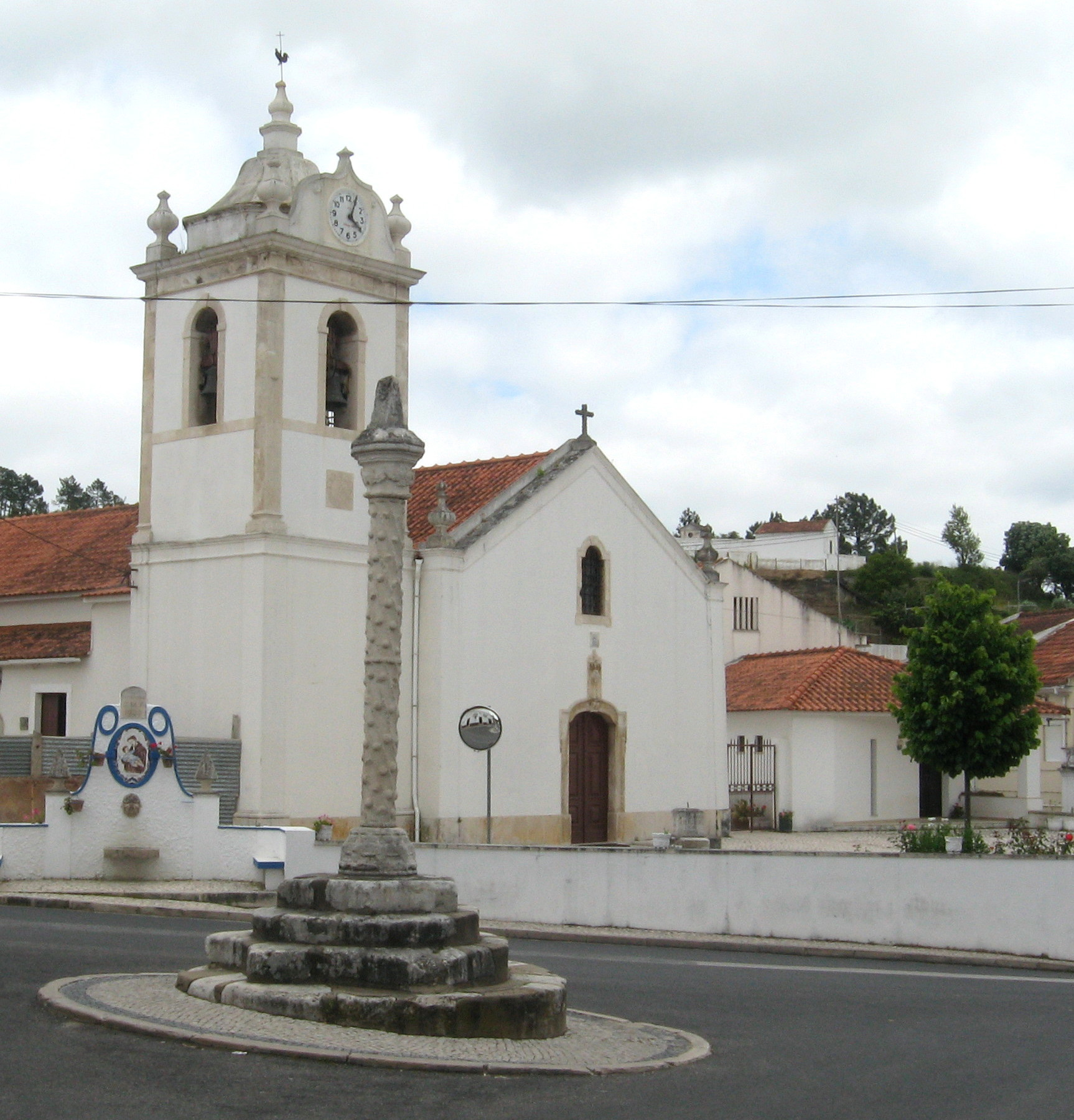 Alcobaça, Portugal, Mosteiro de Alcobaça, Coutos de Alcobaça, former county of the Abbey, Maiorga was one of the 13 cities of Coutos, pillory from 1514, Chur of S. Lorenço 16th century